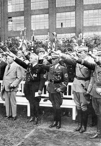 W. L. Mackenzie King at the opening of the All-German Sports Competitions, Berlin, Germany.